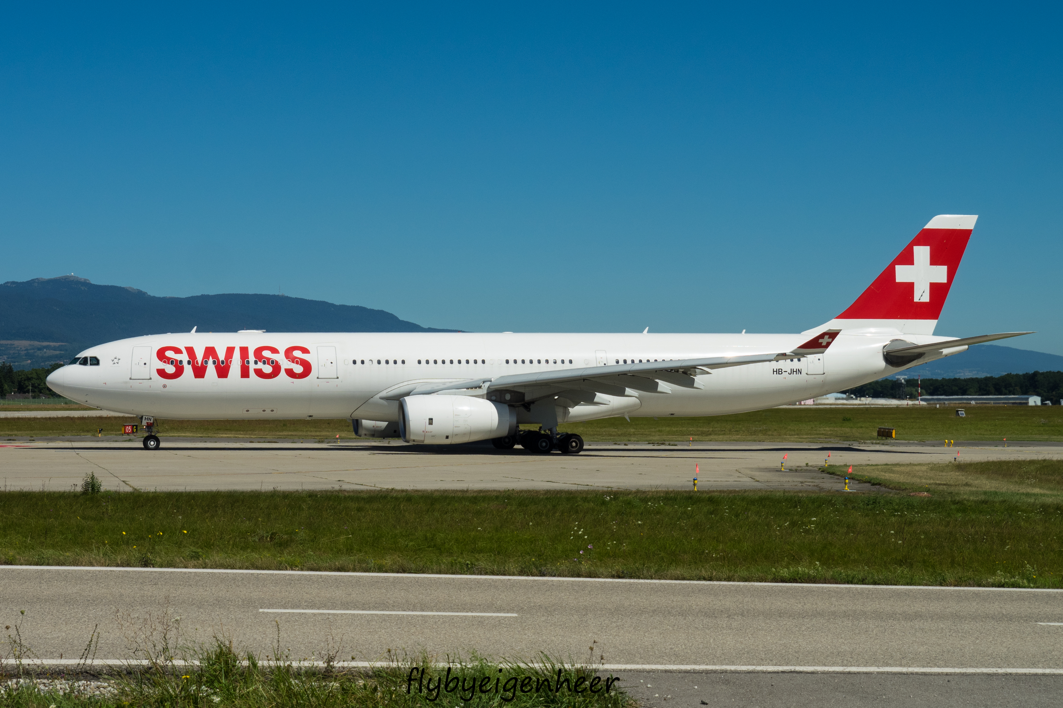 GVA 22.08.2016